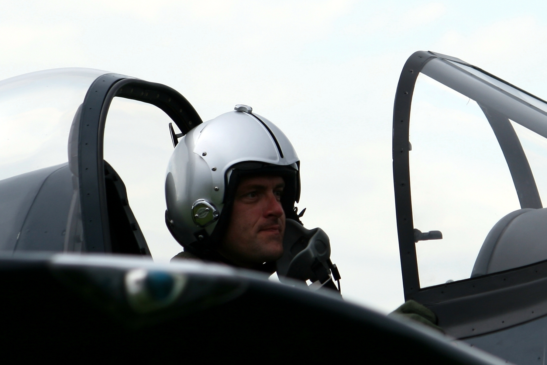 Matthias Dolderer Corsair